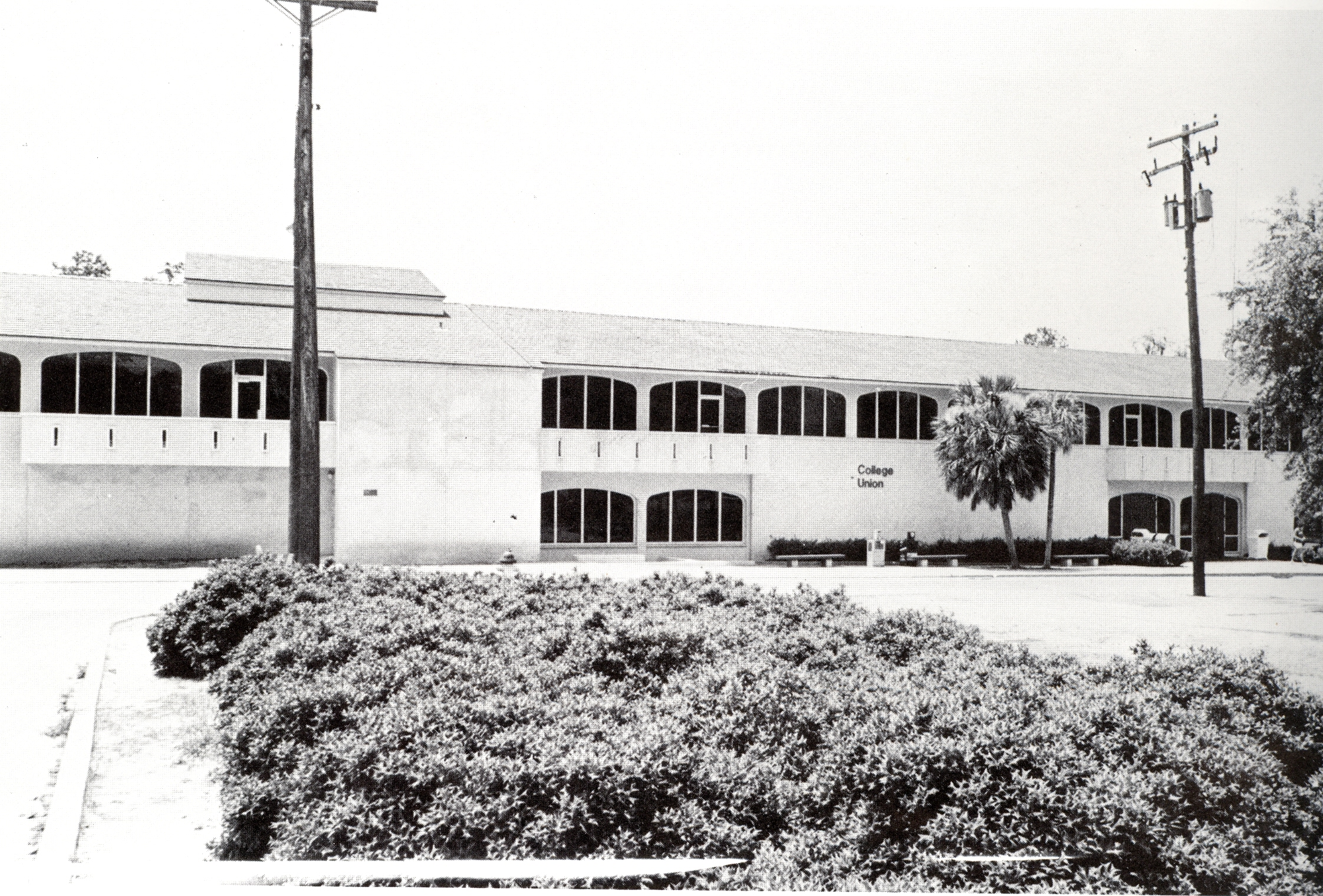 Former Student Union at Valdosta State University as it appeared in 1976.